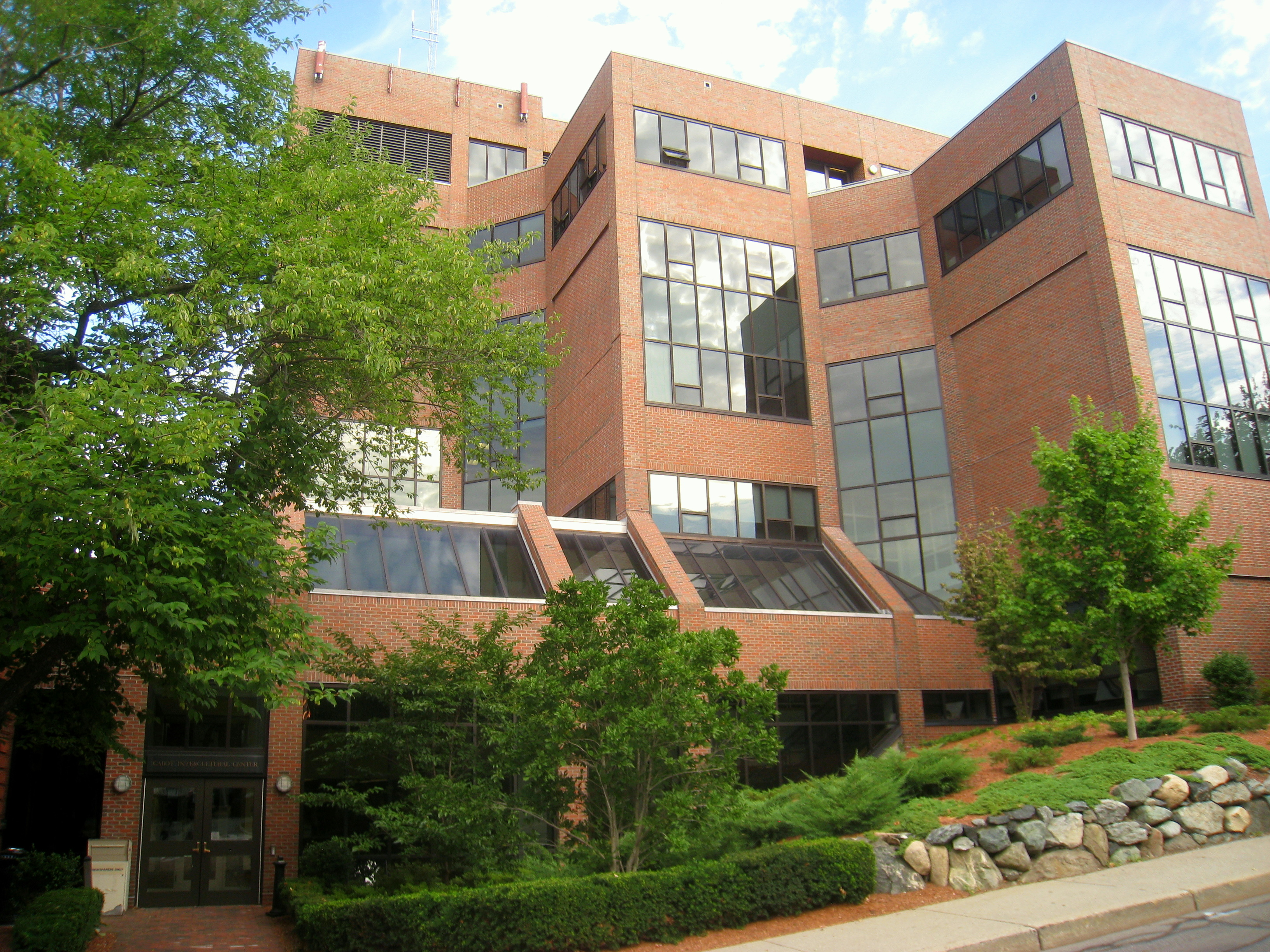 Fletcher School of Law and Diplomacy, Tufts University, Medford, Massachusetts, USA.